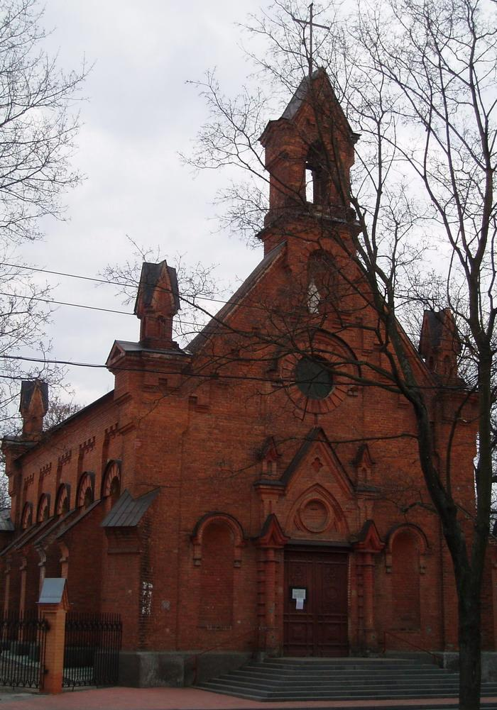 Facade of the Blessed Virgin Mary temple in Sumy (Ukraine).